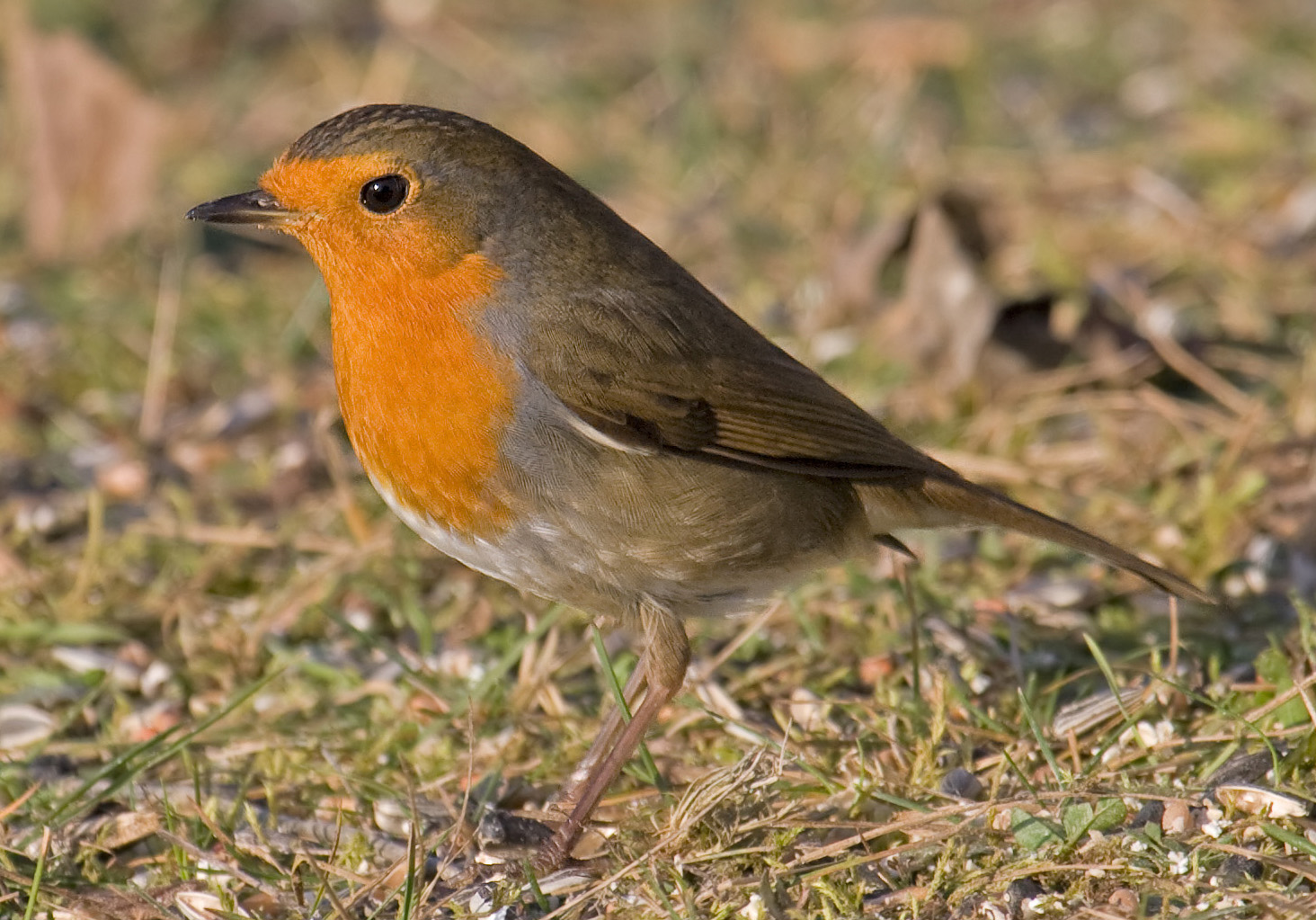 European Robin